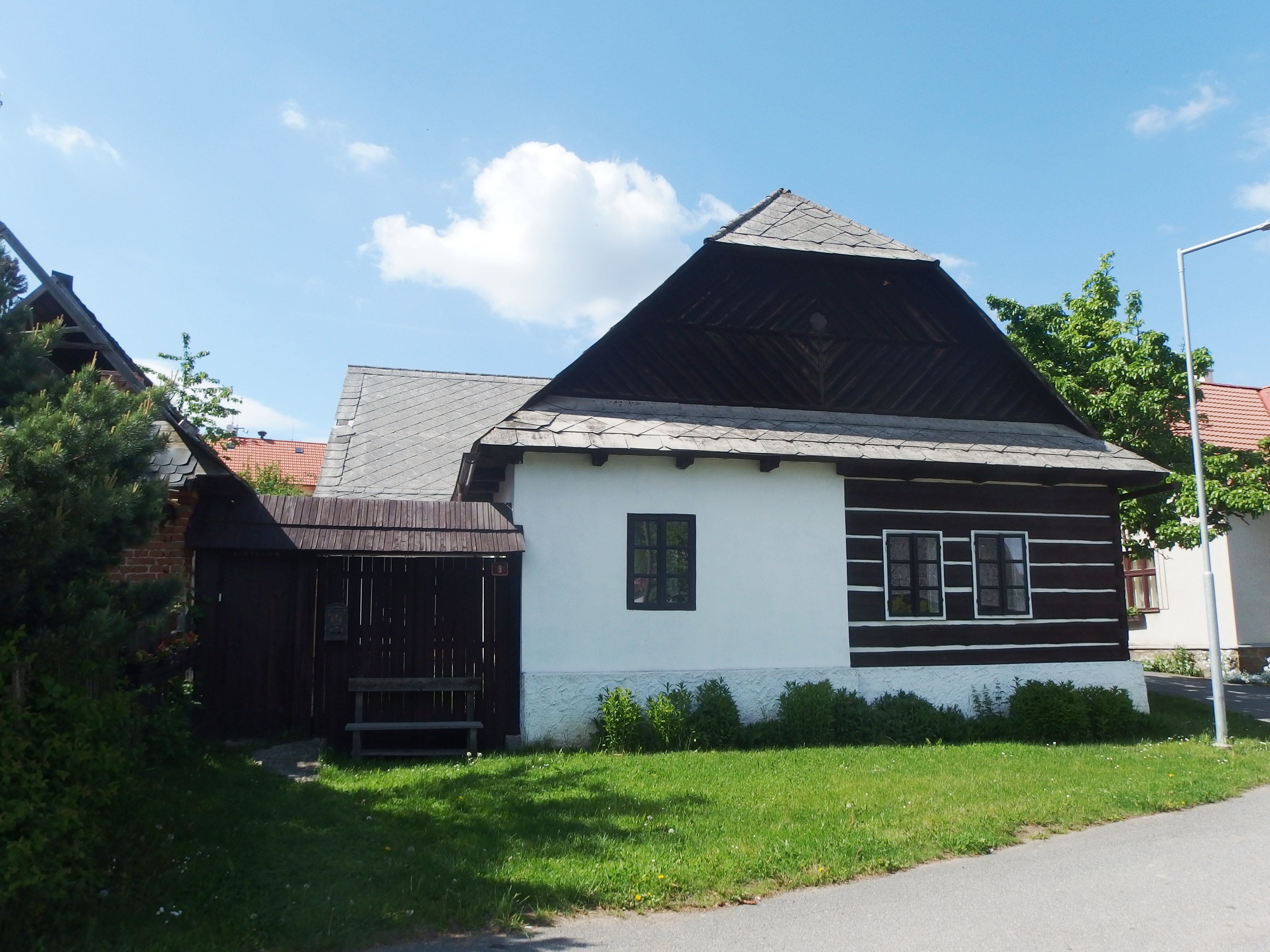 Nyklovice, Žďár nad Sázavou District, Czechia.